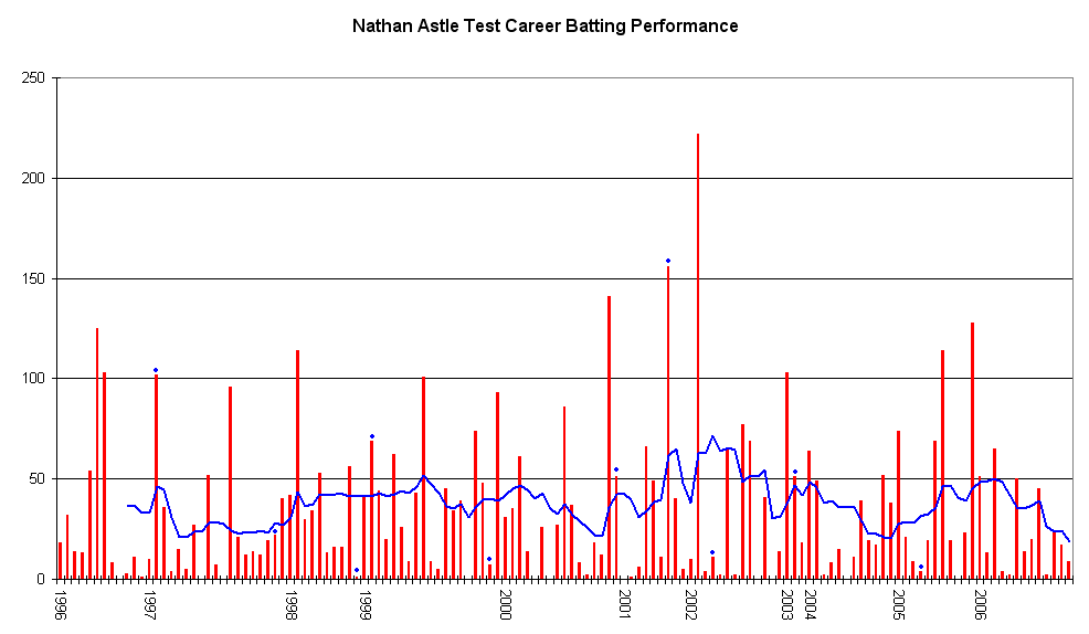 This graph details the Test Match performance of Nathan Astle. It was created by Raven4x4x. The red bars indicate the player's test match innings, while the blue line shows the average of the ten most recent innings at that point. Note that this average cannot be calculated for the first nine innings. The blue dots indicate innings in which Astle finished not-out. This graph was generated with Microsoft Excel 2002, using data from Cricinfo [1] and Howstat [2].